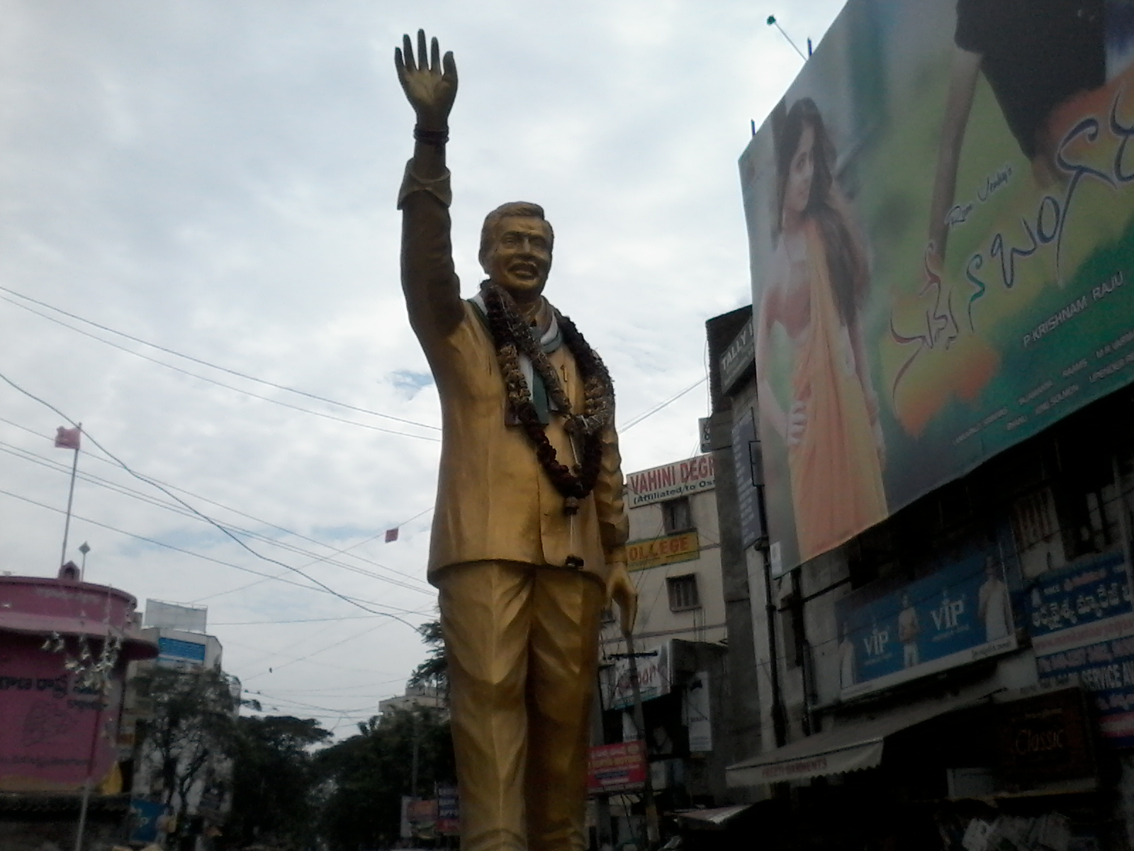 PJR statue on kukatpally road